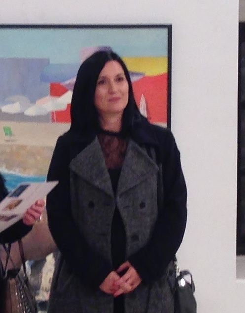 Ivora Dajić, Painter from Serbia